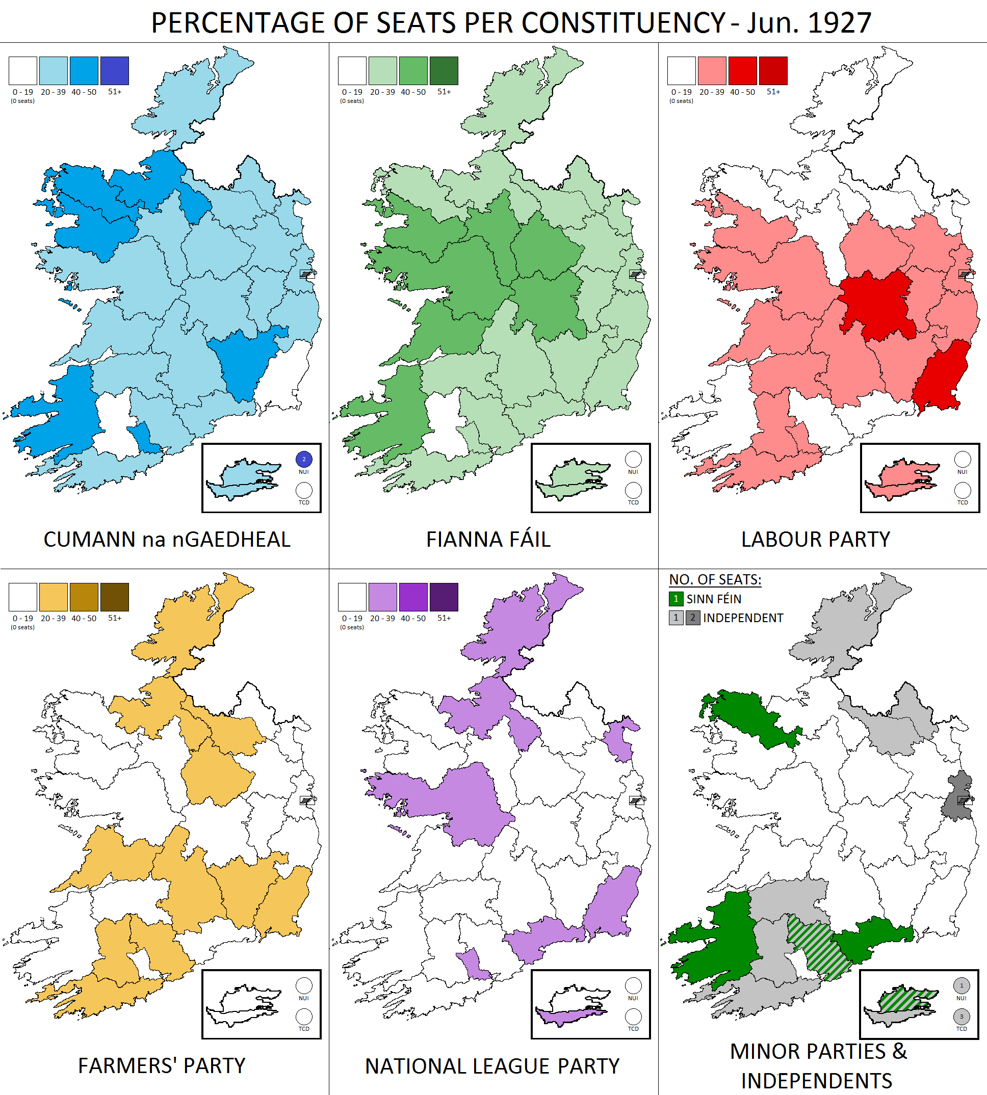 Graphical representation of the June 1927 Irish general election results. Created by myself using data from Wikipedia and literary sources.